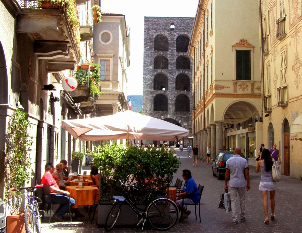 Como (Italy), Porta Torre.